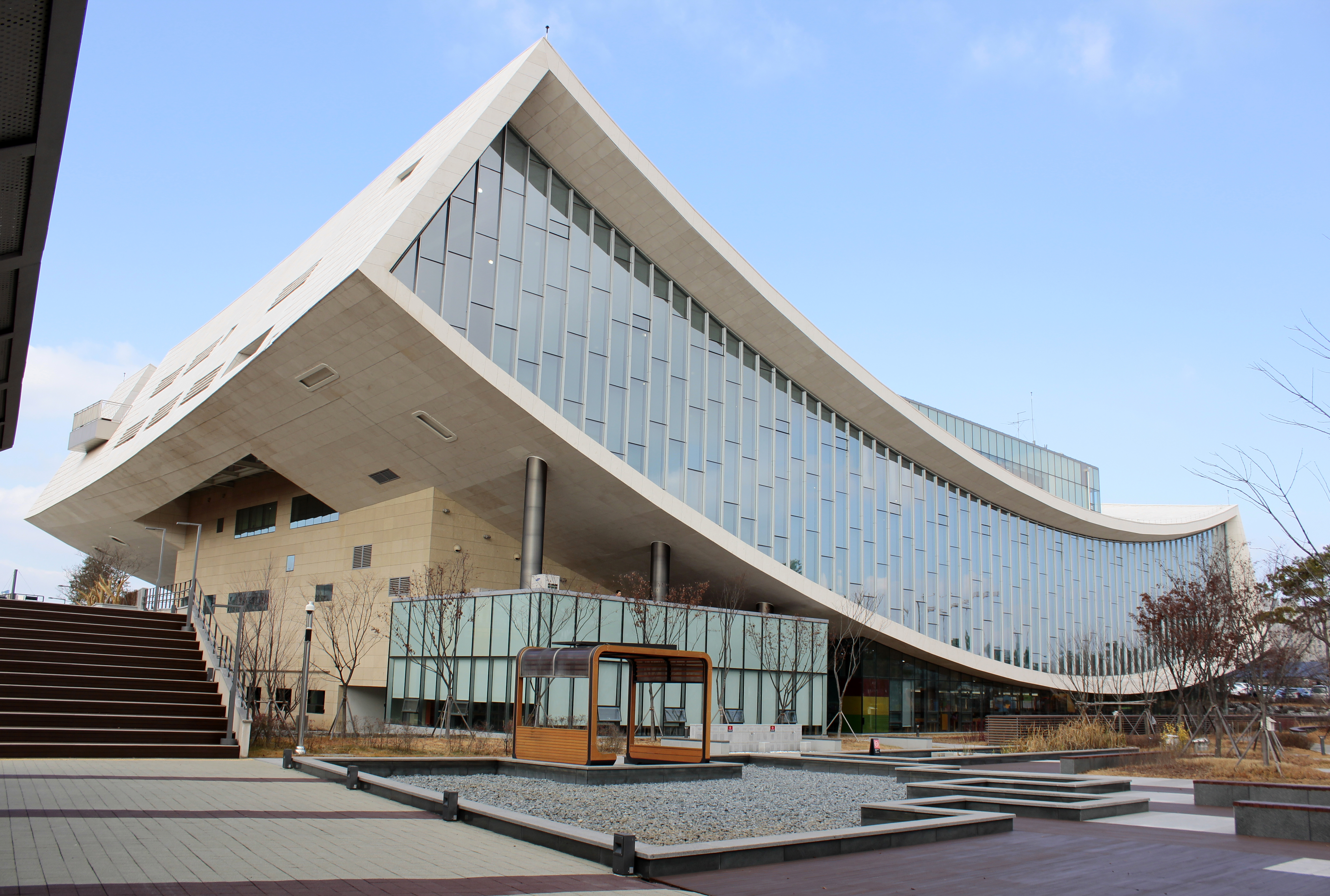 Sejong National Library